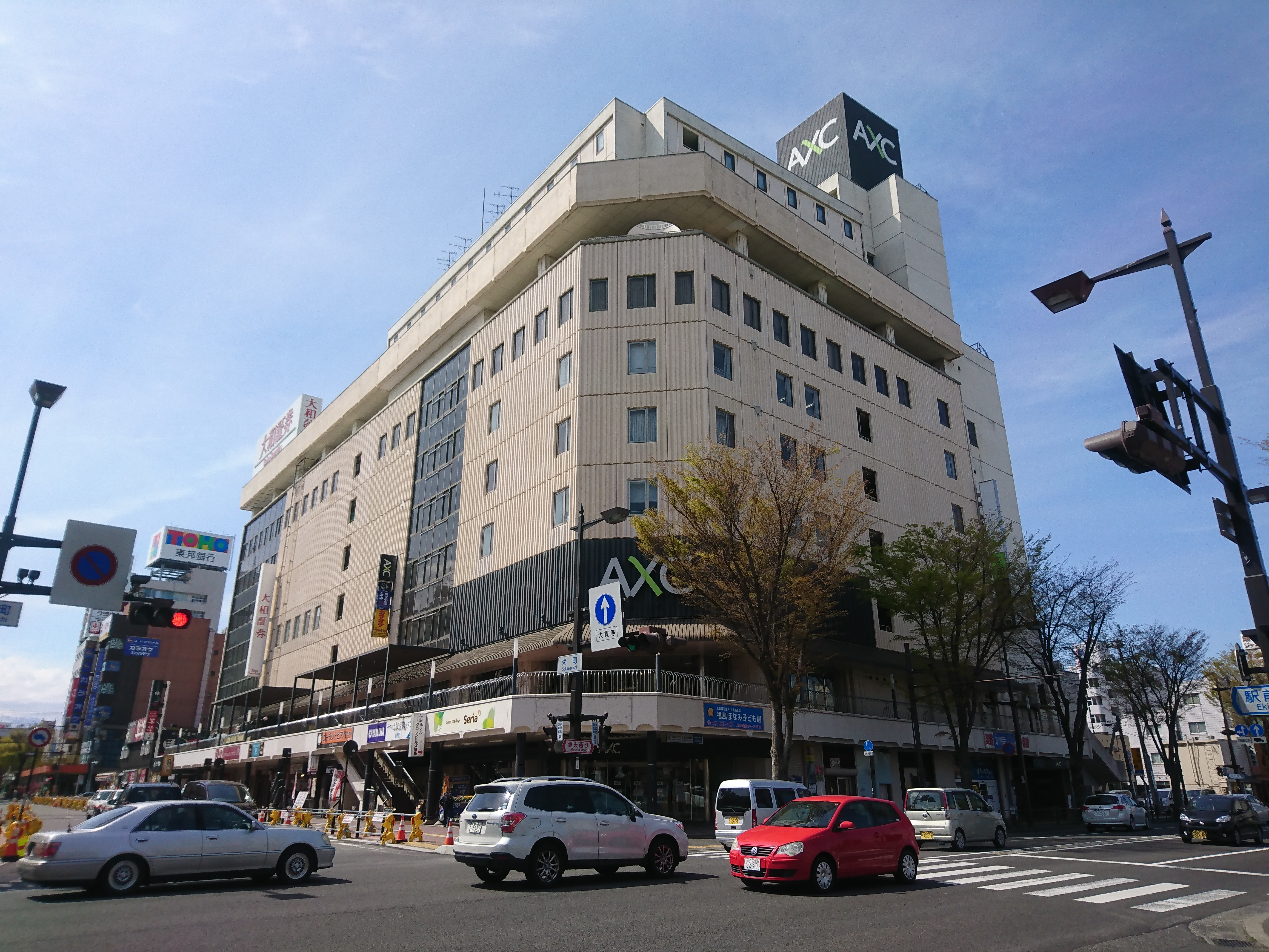 Shot on April 22, 2017